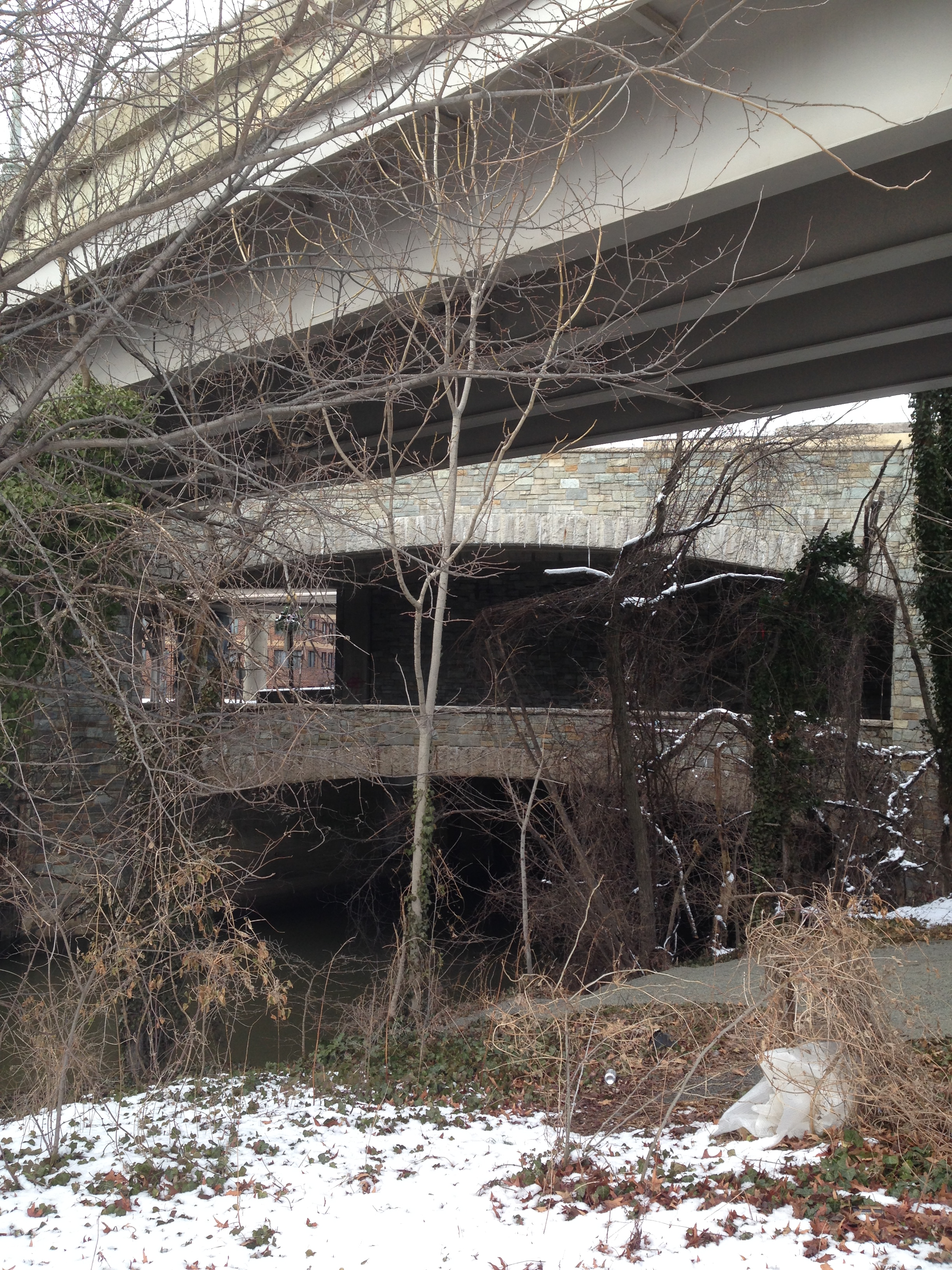 The K Street Bridge over Rock Creek in Washington, DC from the south in March 2015